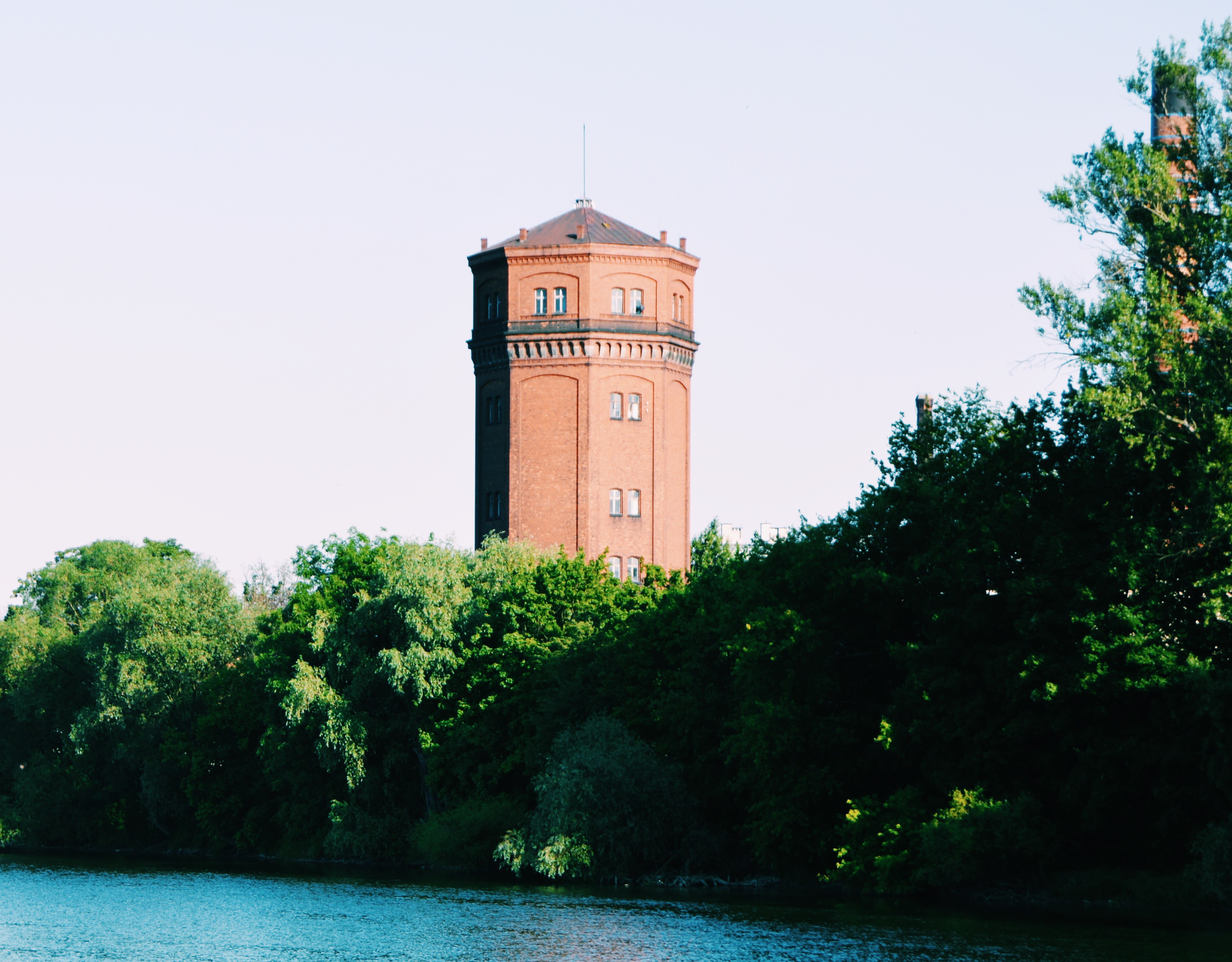 Brzeg water tower by Rybacka Street.